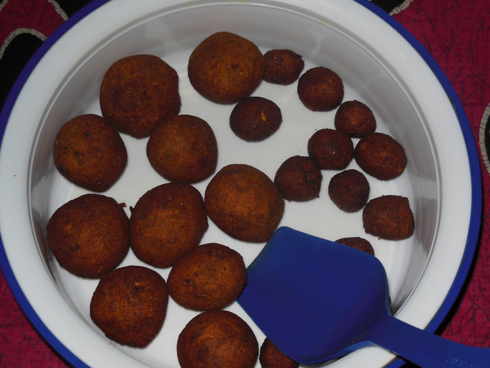 Greek dish